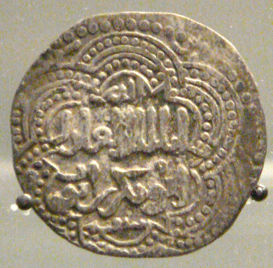 Coin of Ayyubid ruler Al-Adil I, Damascus